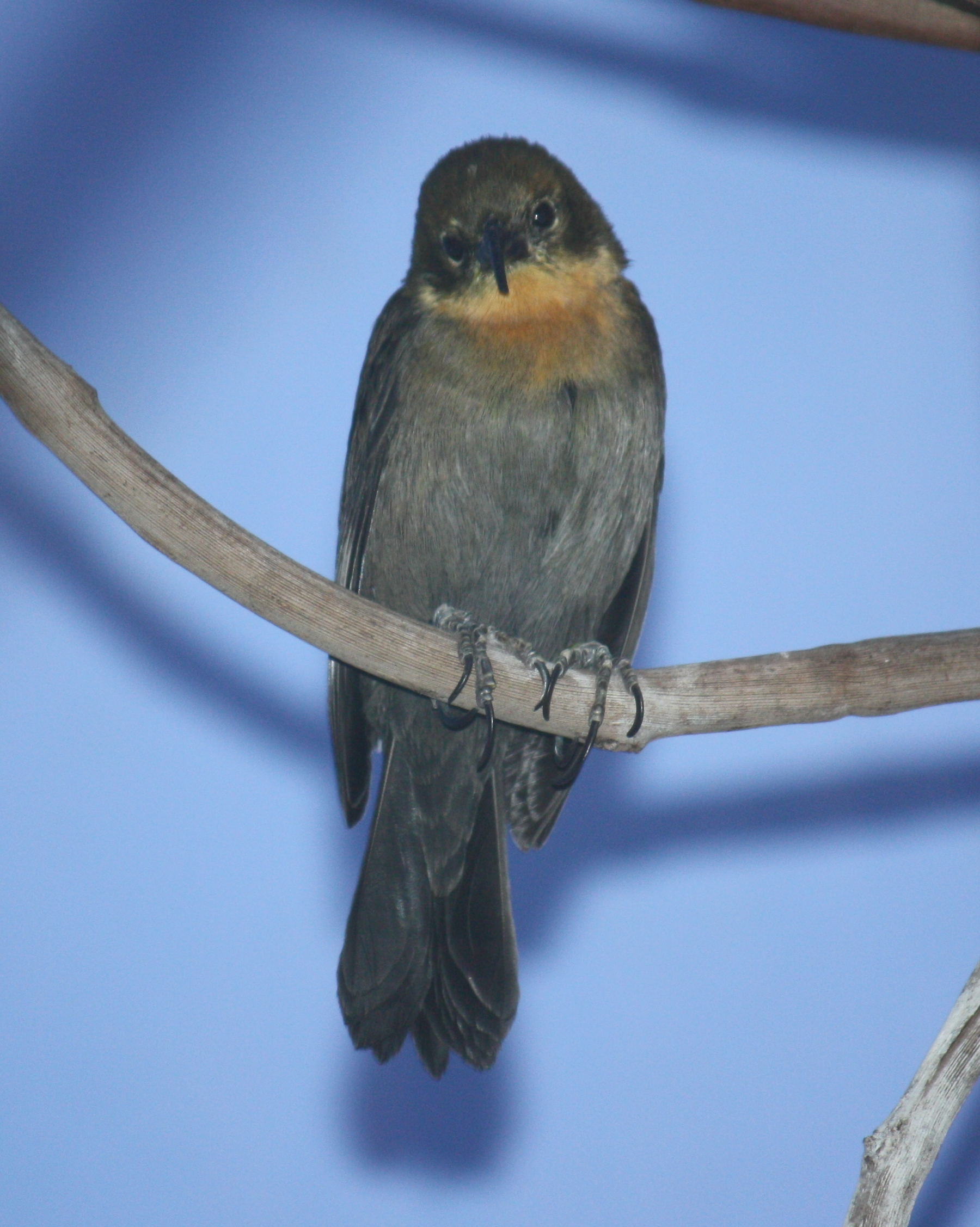 Yellow-hooded Blackbird Female (Agelaius icterocephalus) at the Louisville Zoo. Please note that this particular bird has an overgrowth on her beak.